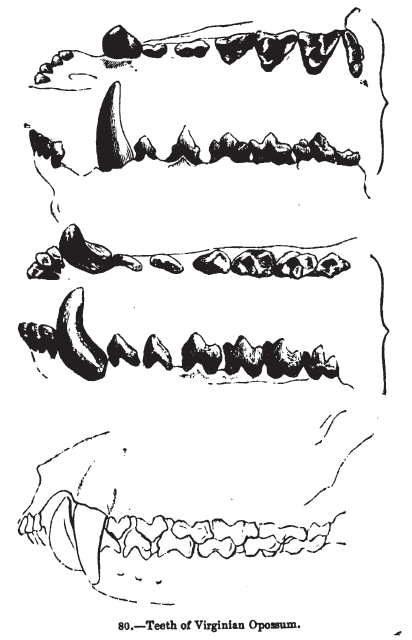 Dentition of Virginia oppossum